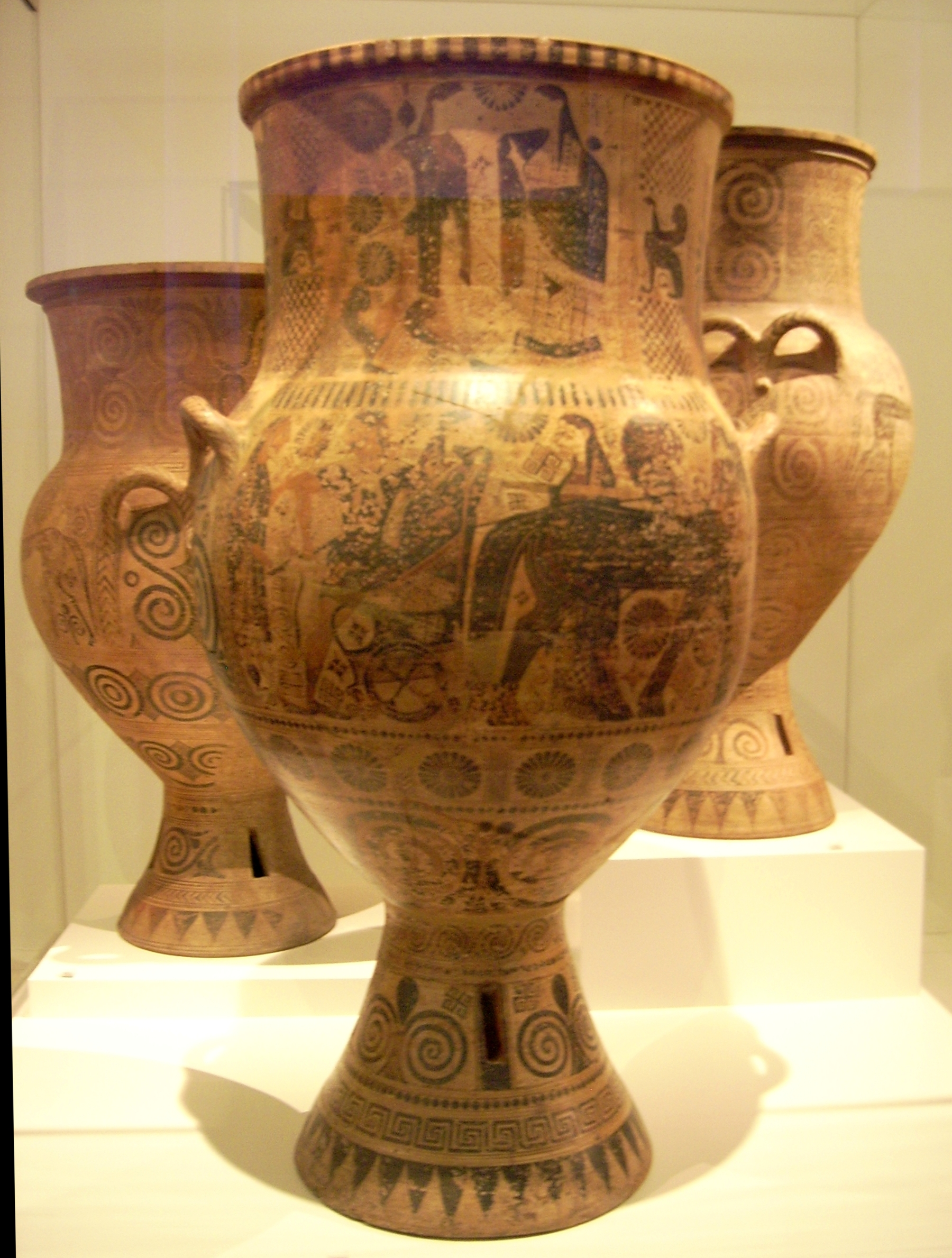 Phitos-Amphora; A-Side: Hercales and Deaneira in a chariot carried by winged horses, nearby Deaneiras parents Oineus and Althaia, on the neck: Hermes, Artemis and 2 horses, under the handles: apotropaic eyes; depends to the "Melian Amphoras", but comes from a parian Workshop; made about late 7th/early 6th century B.C.; found at Aptera, Crete; today in the National Archaeological Museum of Athens (354).